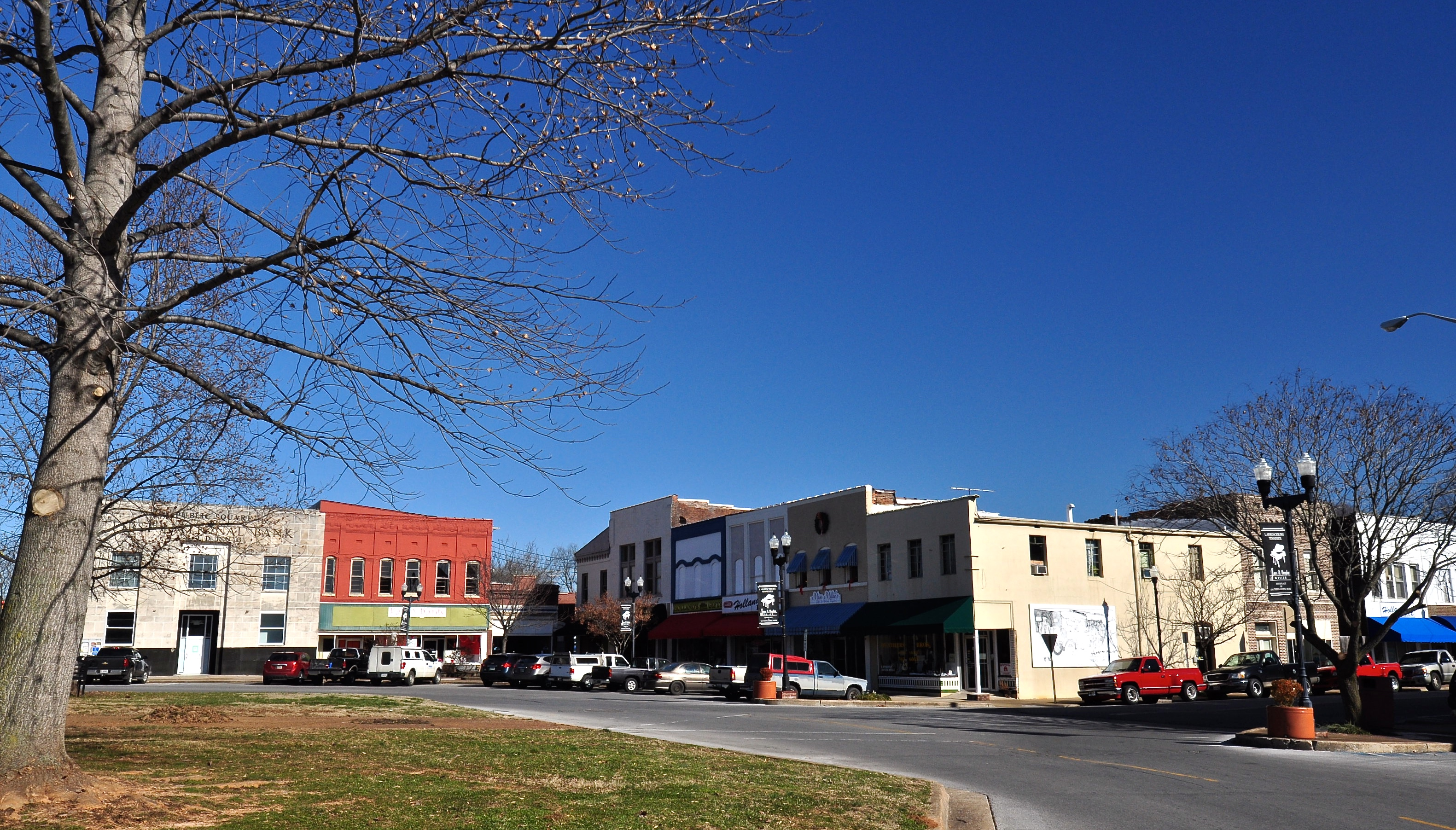 Lawrenceburg Commercial Historic District, Roughly bounded by N. Military St., Public Sq., E. Gaines St., and E. Pulaski St. Lawrenceburg